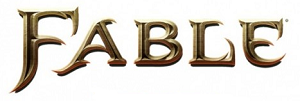 Fable video game series logo.